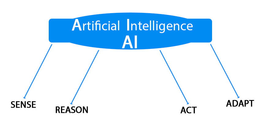 Artifical Intelligence